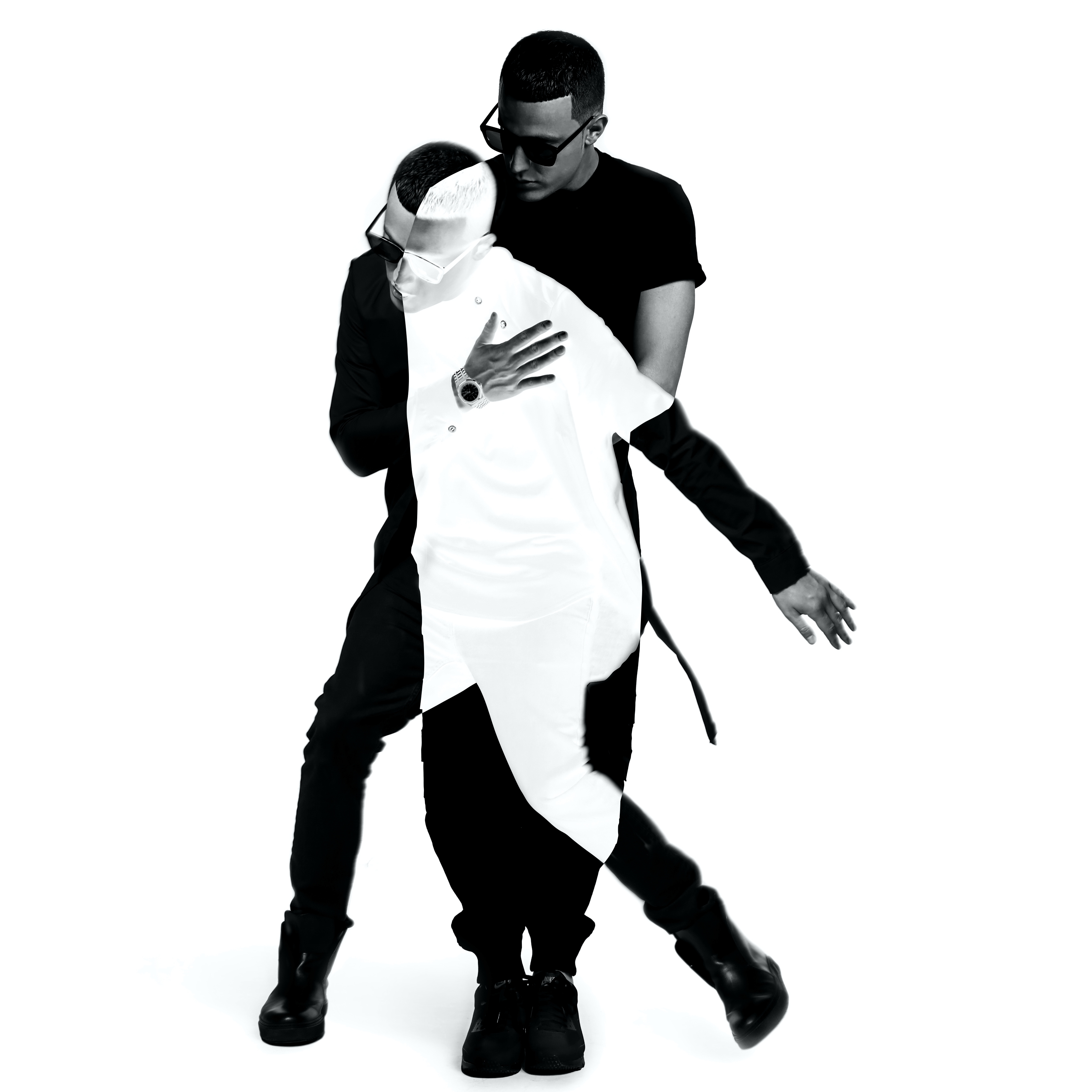 DJ Snake